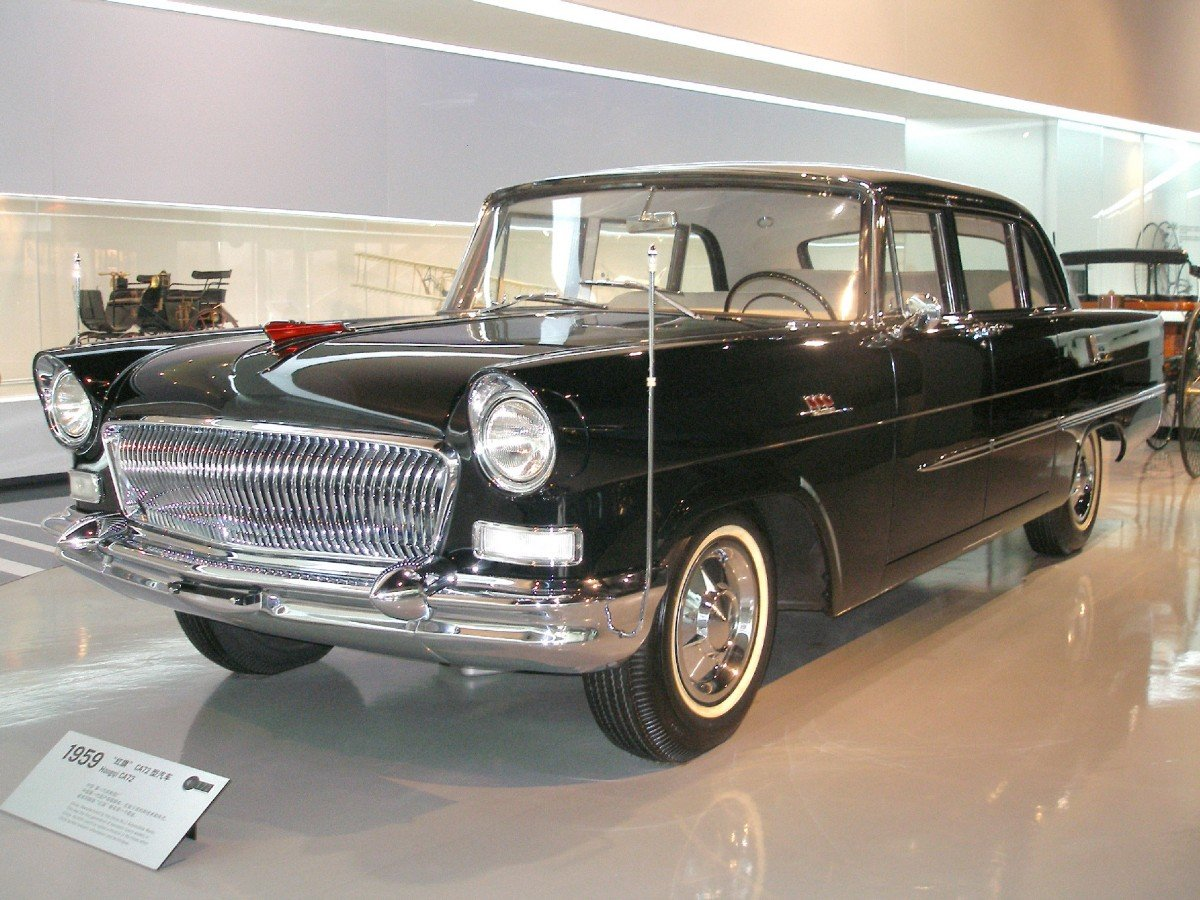 The Hongqi, a Chinese limousine. The brand Hongqi (translates to "Red Flag") is part of FAW group, whose major products are trucks